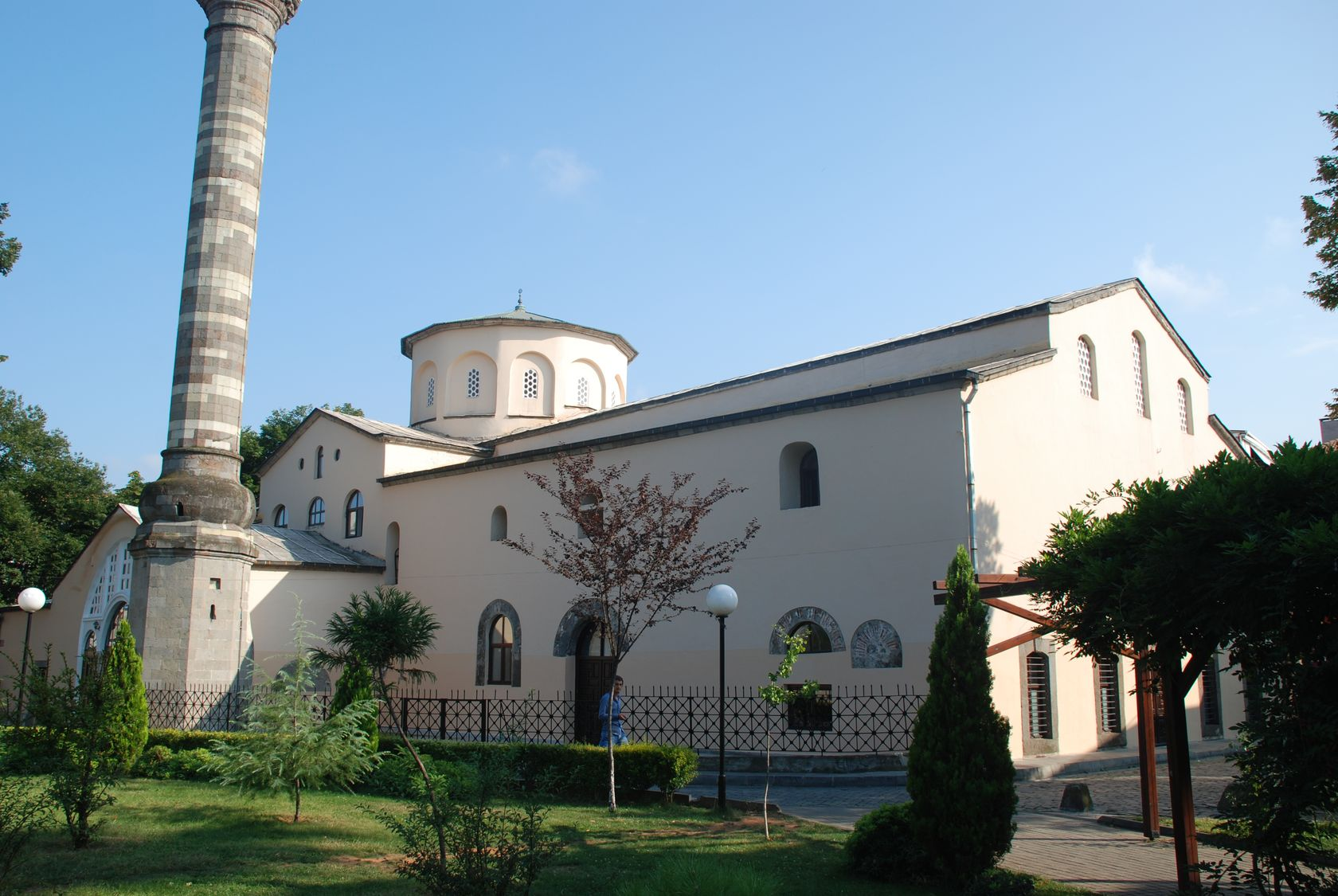 Trabzon, Ortahisar mosque